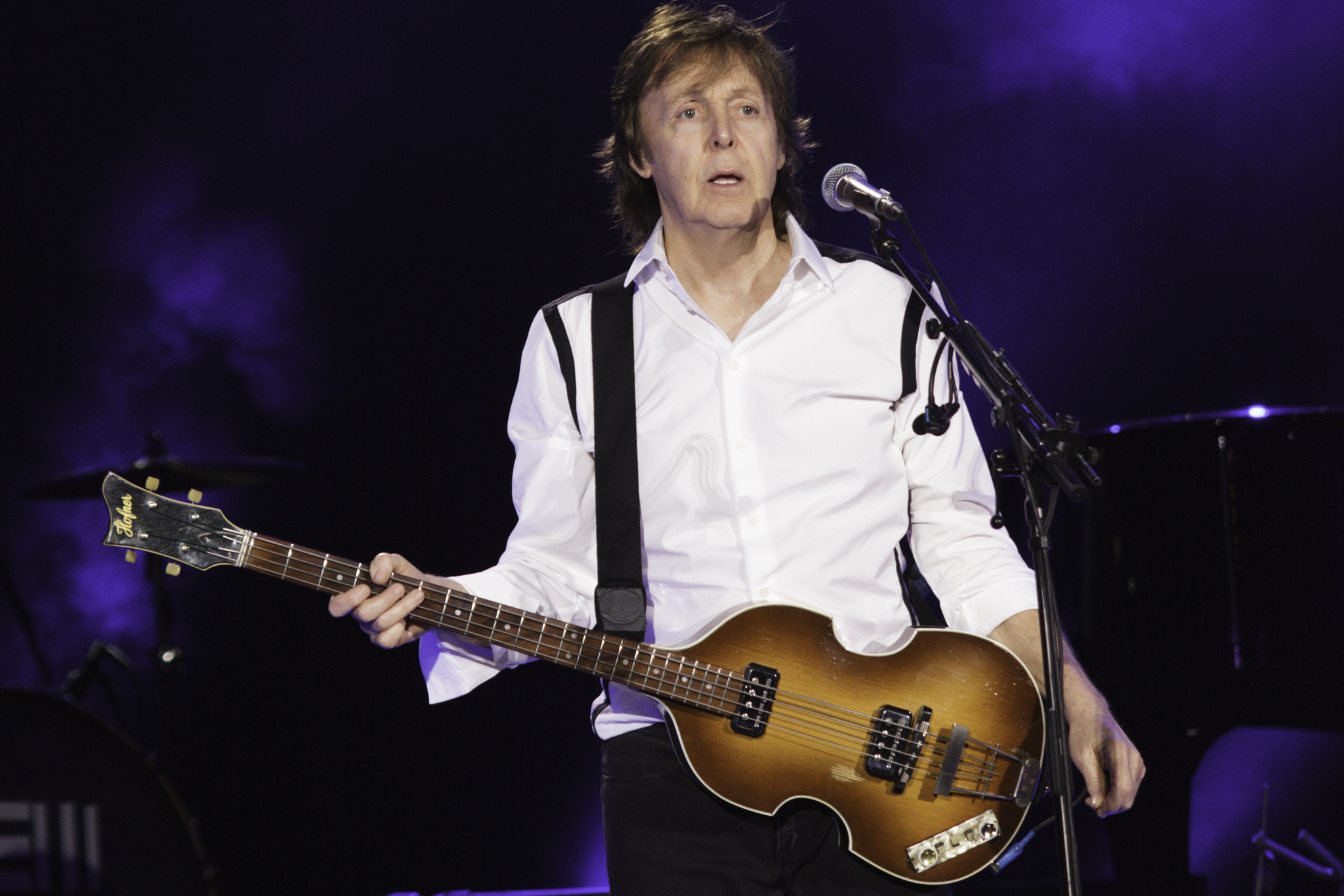 Paul McCartney, Saturday 19 April, Centenario Stadium, Montevideo, Uruguay. Out There tour, including performances at the Movistar Arena in Santiago, Chile (Monday 21 and Tuesday 22), then in Peru, Ecuador and Costa Rica. Repertoire with several Beatles classics, some songs as Macca soloist, and songs from New his 2013 album produced by Mark Ronson, Paul Epworth and Giles Martin. This is the second visit of the former Beatle to Montevideo. His unforgettable debut at Centennial was in 2012, the On The Run tour, included songs from her jazzy album Kisses on the Bottom standards: Paul McCartney, sábado 19 de abril, estadio Centenario de Montevideo, Uruguay. Gira Out There, que incluye presentaciones en el Movistar Arena de Santiago de Chile (el lunes 21 y martes 22), y luego en Perú, Ecuador y Costa Rica. Repertorio con varios clásicos de los Beatles, algunos temas como solista de Macca, y también canciones de New, su álbum de 2013 producido por Mark Ronson, Paul Epworth y Giles Martin. Se trata de la segunda visita del ex beatle a Montevideo. Su inolvidable debut en el Centenario fue en 2012, dentro de la gira On The Run, que incluía canciones de su álbum de standards jazzeros Kisses on the Bottom: The Band: Paul McCartney: Lead Vocals, Bass, Acoustic Guitar, Piano, Electric Guitar, Ukulele. Rusty Anderson: Backing Vocals, Electric Guitar, Acoustic Guitar. Brian Ray:(Backing Vocals, Bass, Electric Guitar, Acoustic Guitar, Tambourine. Paul Wickens: Backing Vocals, Keyboards, Electric Guitar, Percussion, Harmonica. Abe Laboriel, Jr.: Backing Vocals, Drums, Bass, Percussion. Camera: Canon EOS 5D Mark II 1 ISO: 2000